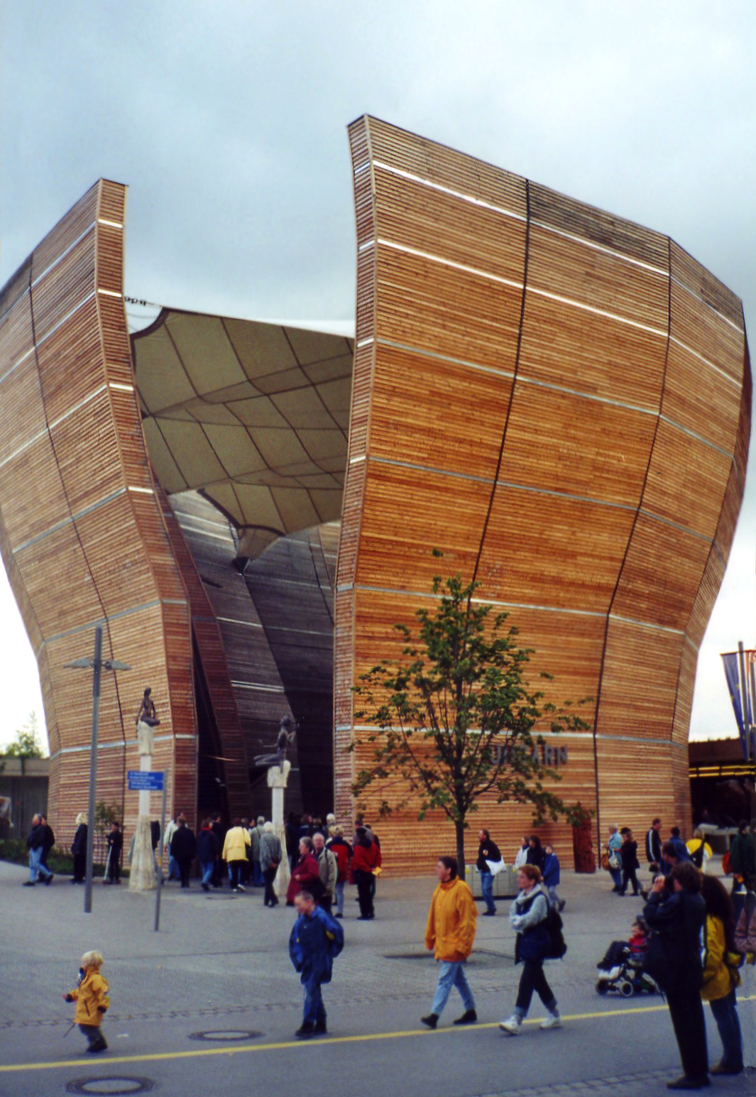 Own Photo Frans van Nes Hungarian pavilion Expo 2000